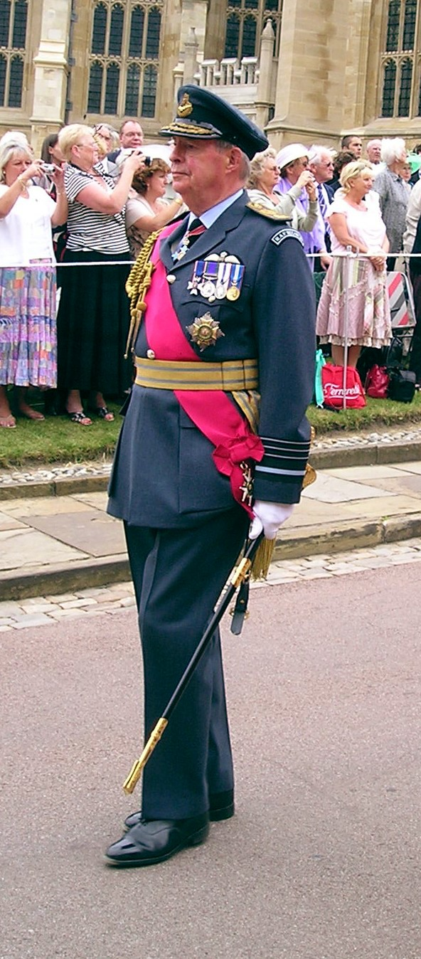 Air Chief Marshal Sir Richard Johns, the Constable and Governor of Windsor Castle, in procession to St George's Chapel, Windsor Castle for the annual service of the Order of the Garter.